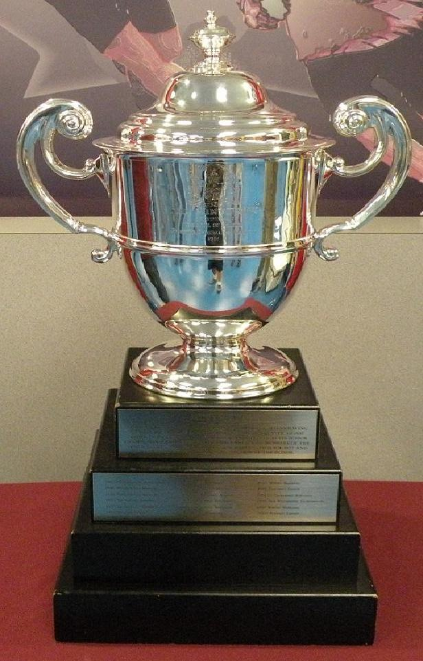 the Minto Cup, Canada's national junior A Box Lacrosse championship trophy, on display in Calgary, August 28, 2008.